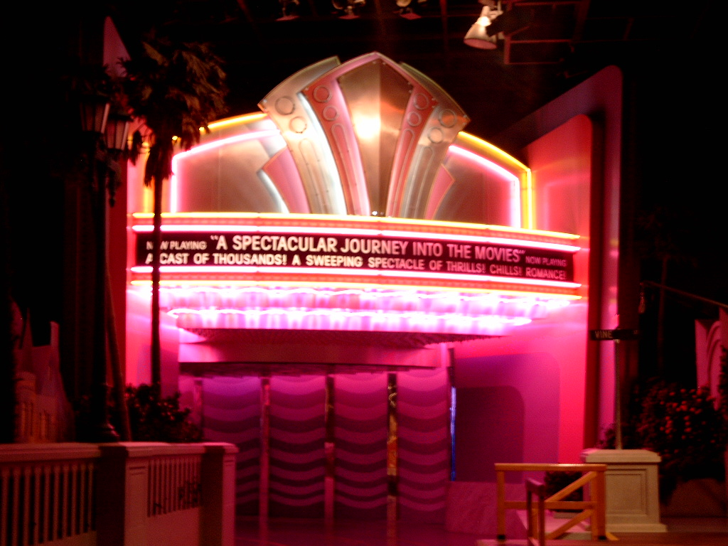 Interior shot of start of Great Movie Ride, Disney-MGM Studios, Florida